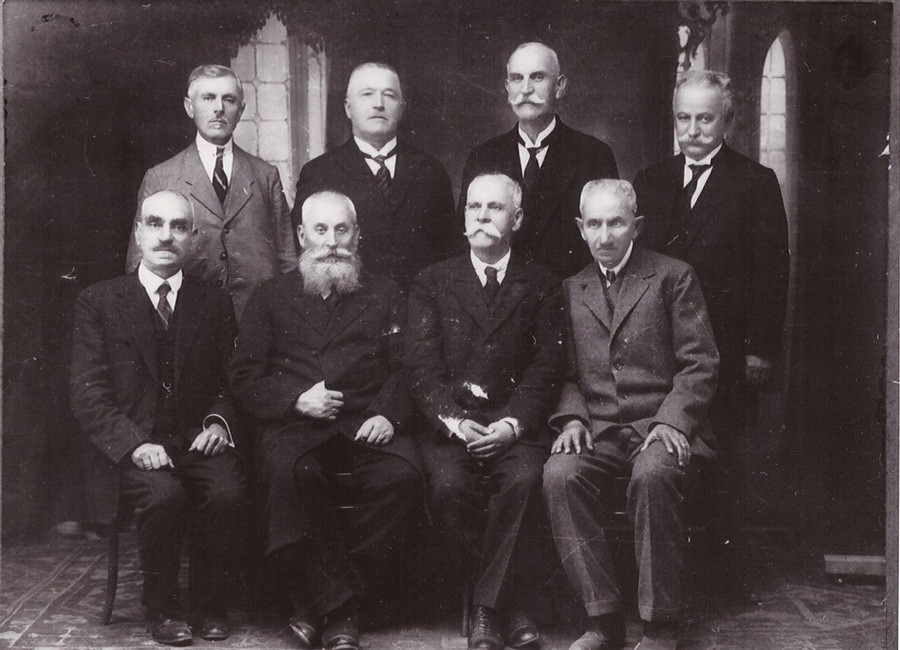 Georgi Kandilarov, Bozhil Raynov and 1886 Graduates from the Thessaloniki Bylgarian High School